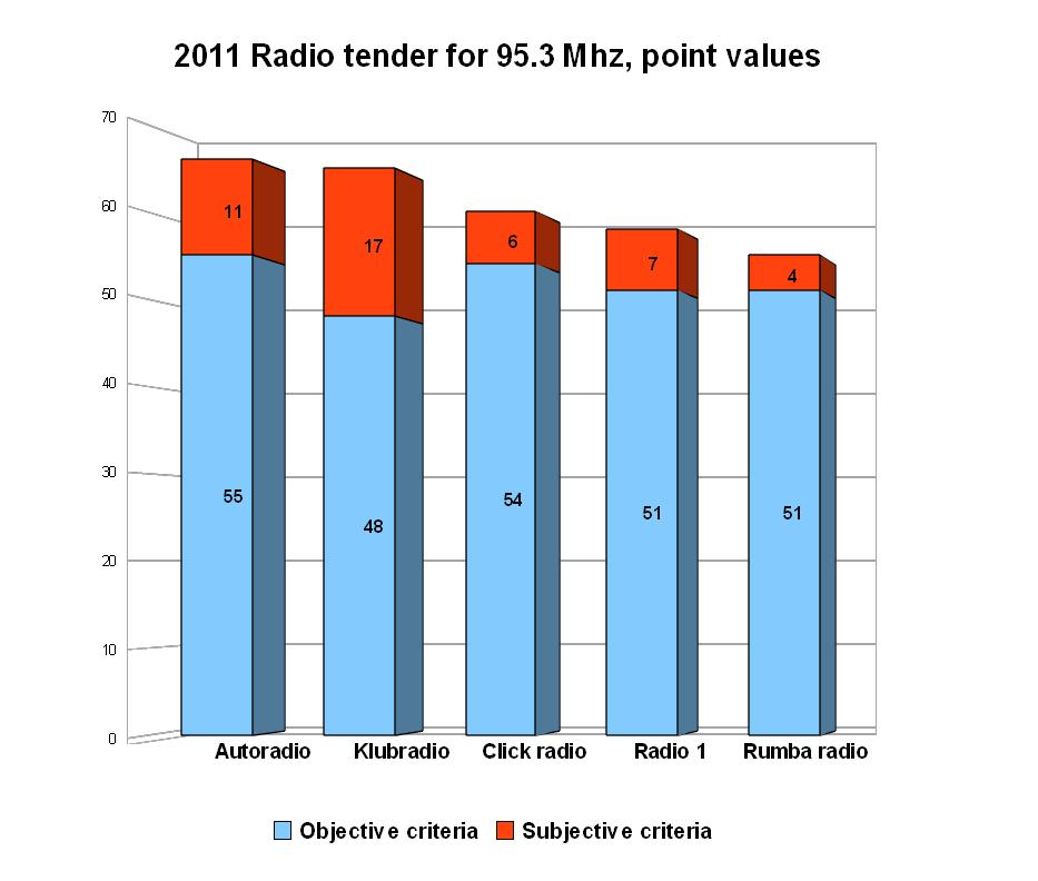 Radio tender points for the radio frequency tender for 95.3 Mhz, 2011, Hungary. Based on public data. Explanation of objective and subjective criteria. Objective criteria is determined by the offer of the tender participant and the amount of points awarded based on such criteria are known in advance and are public. Points for subjective criteria are determined at evaluating the individual tender participants individually for various categories such as experience